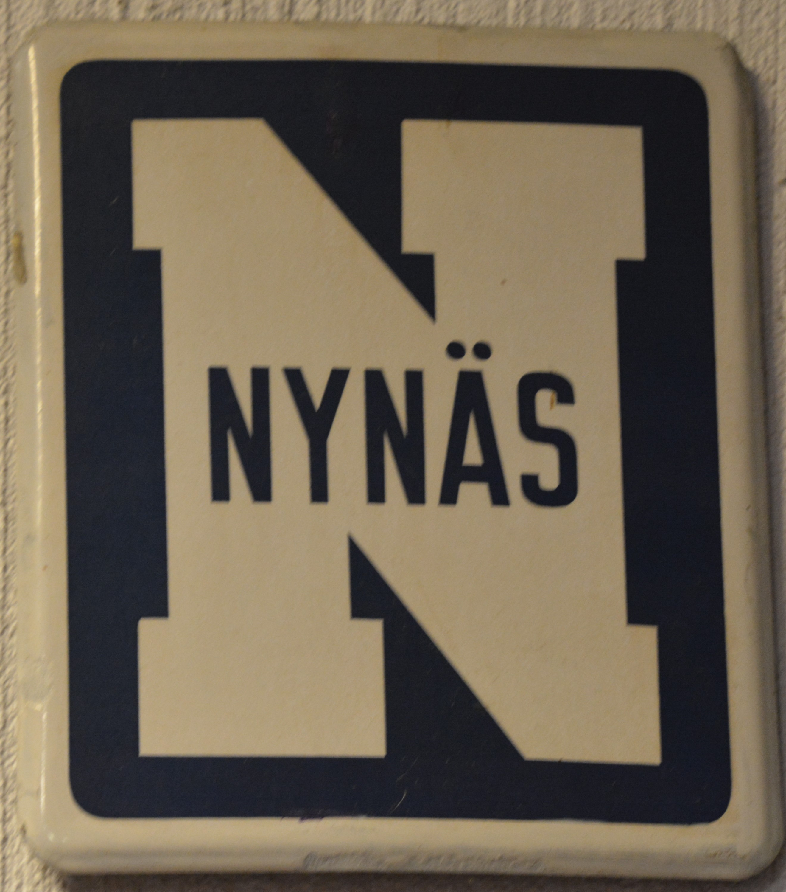 Enamel sign for a Nynäs Petroleum station